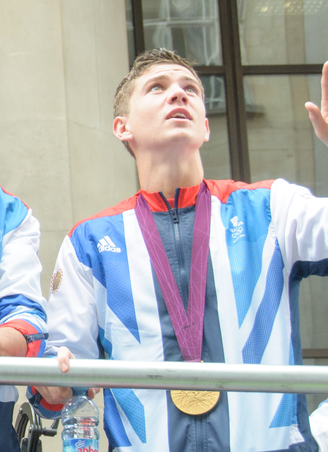 David Smith and his Boccia medals